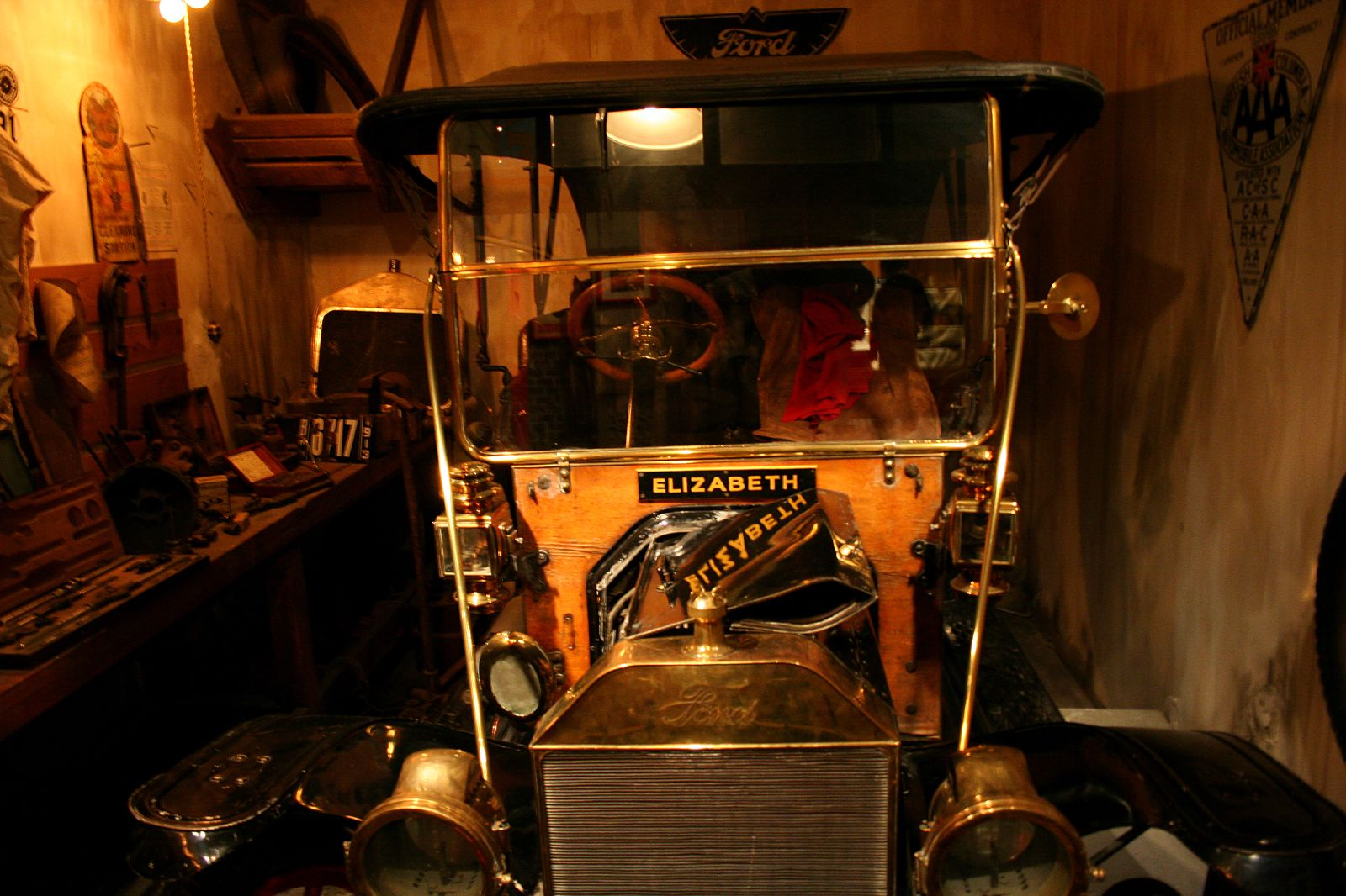 "Elizabeth", a 1912 Ford Model T Touring Car that was once owned by the Canadian antique car collector Phil Foster, in a recreated garage at the Royal British Columbia Museum in Victoria, British Columbia, Canada.Elizabeth